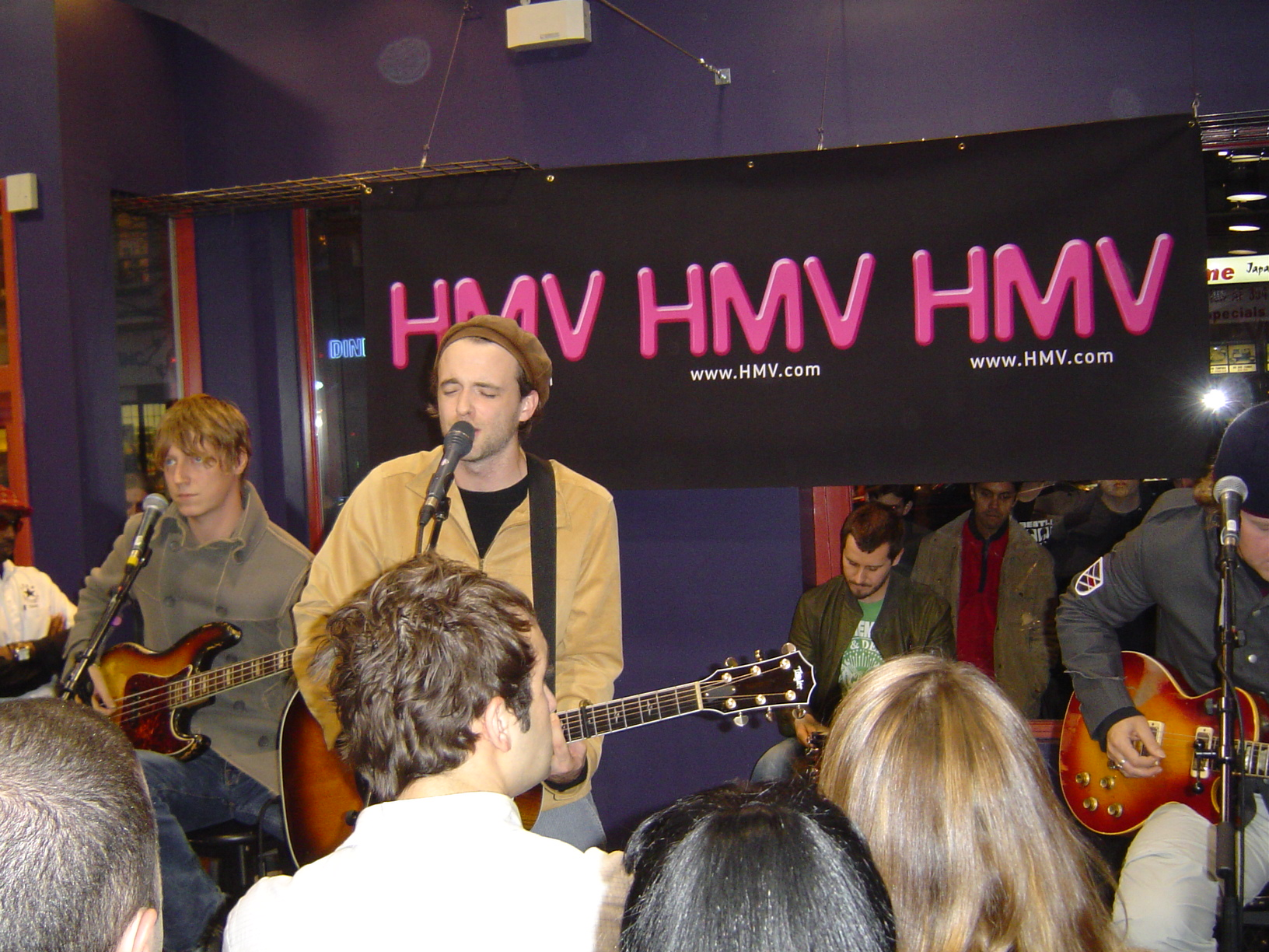 Travis at an in-store performance in Toronto, Canada during the 12 Memories promotional tour.